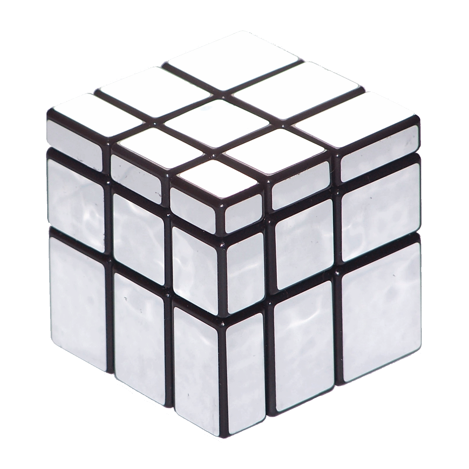 The Mirror Cube is a nearly normal Rubik's Cube. But instead of the diffrent colors, the cubies have a special size. You can solve it like a normal 3×3×3 Rubik's Cube. The picture shows a solved “Mirror Cube Silver”